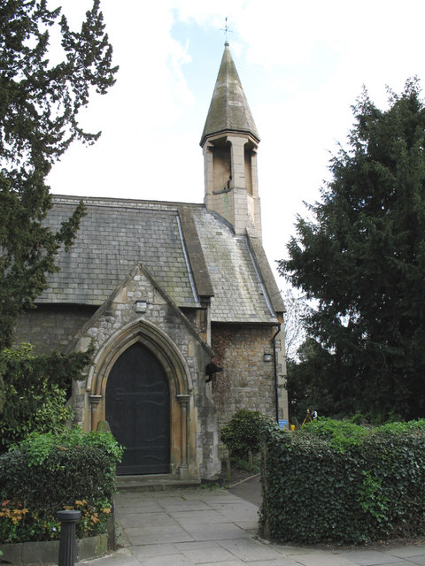 Holy Trinity - East Finchley Designed by Anthony Salvin, who also designed Christ's College on Hendon Lane, Holy Trinity was consecrated in 1846. Originally the church consisted of a nave and chancel. North and south aisles were added in 1866 and 1883 respectively. This is a view of the current main entrance to the church seen from Church Lane. A footpath runs through the graveyard from this entrance to Trinity Avenue behind the church. The Holly hedges, which possibly replaced the original fence following complaints of flower theft from the graves (in 1912), have been invaded by Elder. The church is surrounded by trees, mainly Yew and Pine, making it a difficult location for wedding photographers.